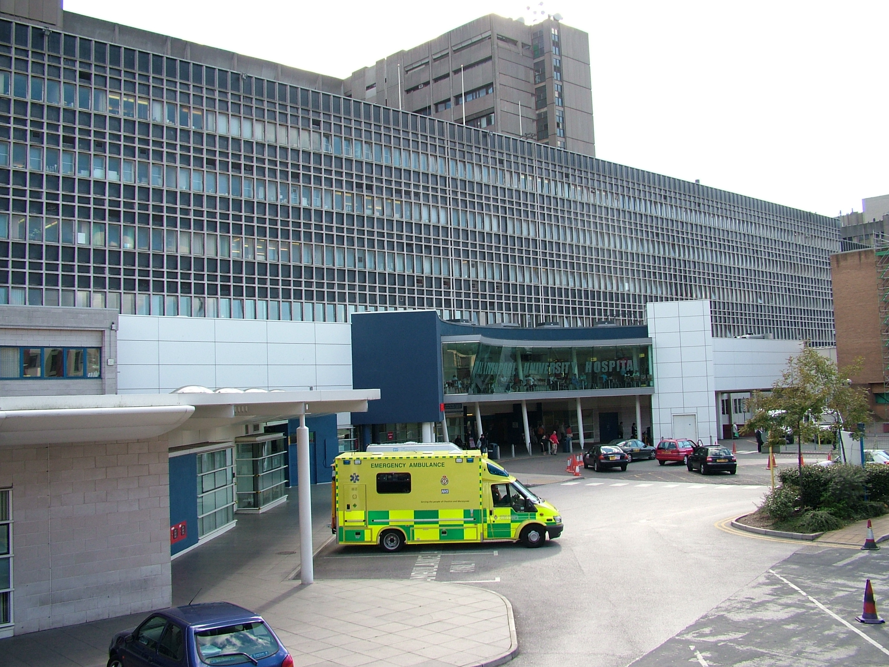 Royal Liverpool University Hospital. Taken by Chris Howells, September 2005.